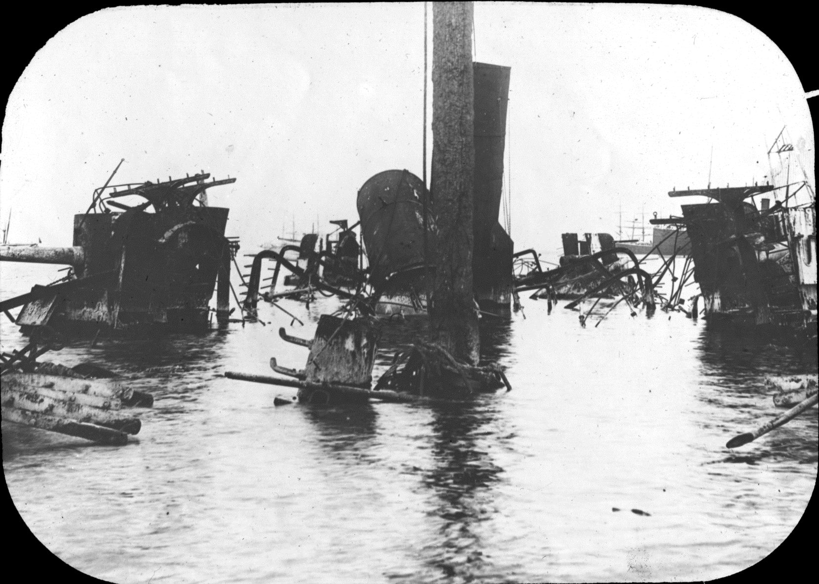 Wreck of Castilla